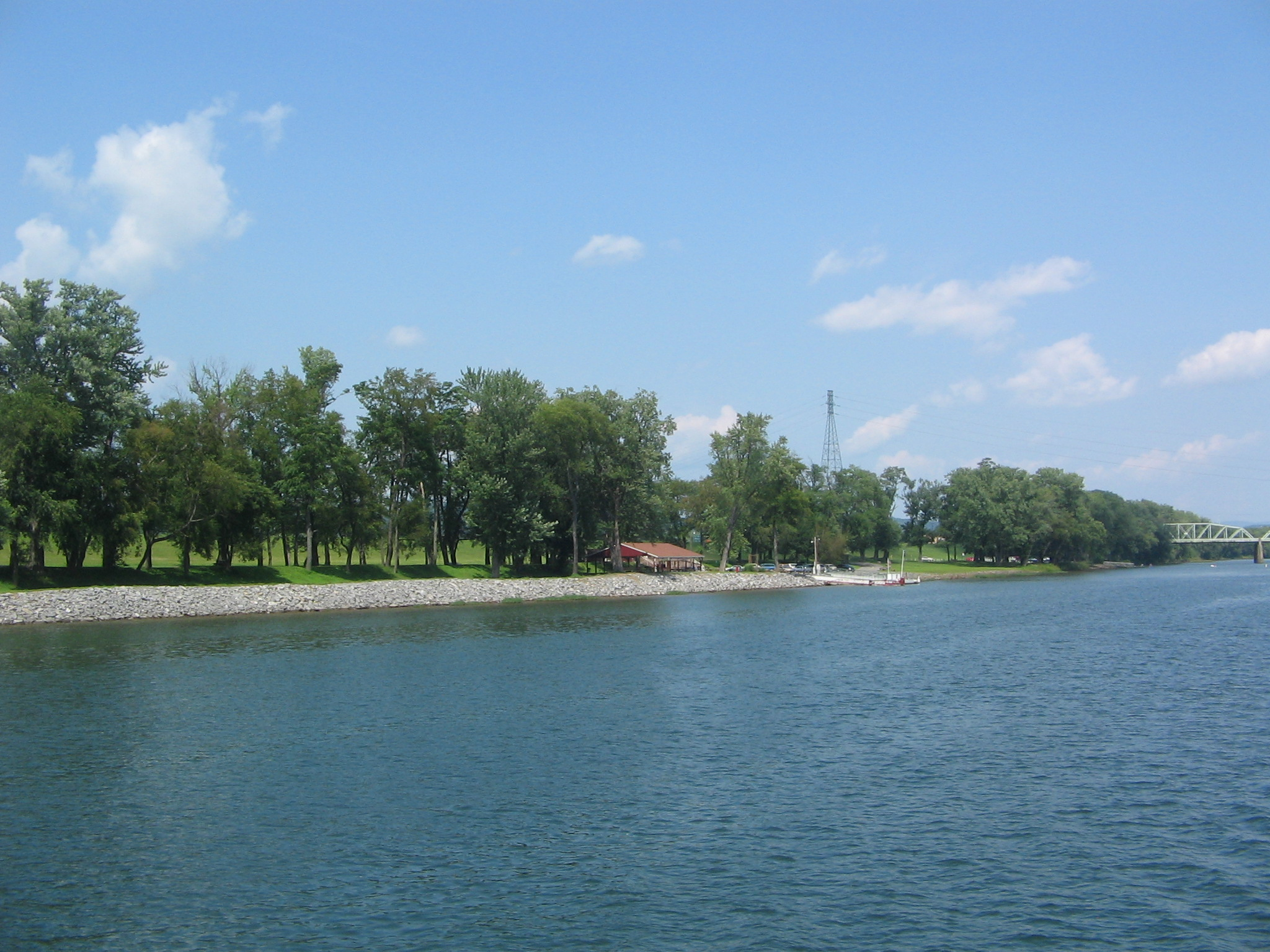 Susquehanna State Park from the West Branch Susquehanna River, Williamsport, Pennsylvania, USA